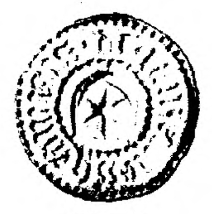 The Seal with Leliwa Coat of arms (used by Jadwiga of Lezenice in the Union of Horodle, 1413)